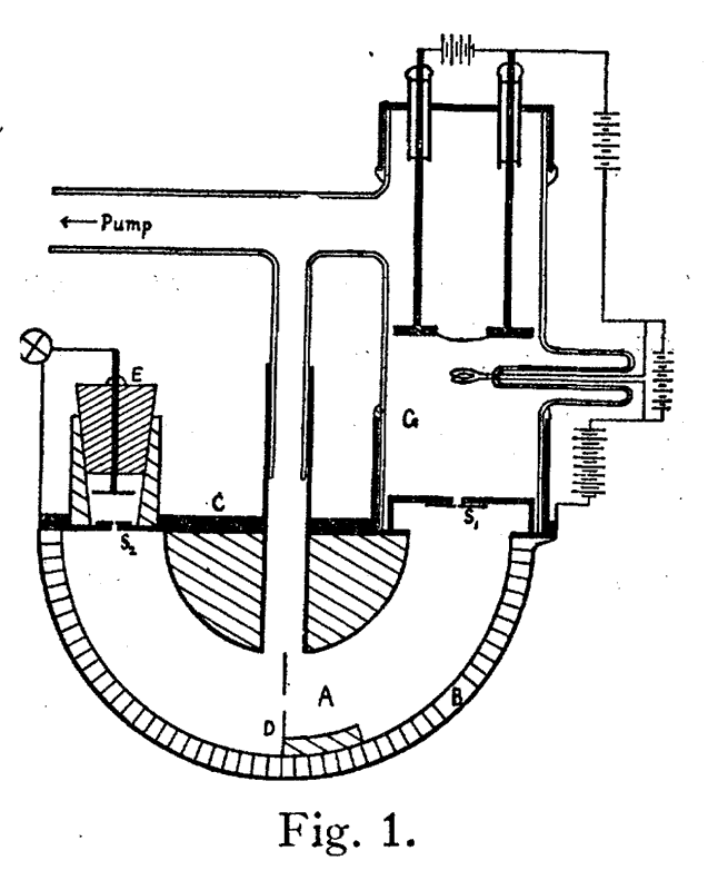 Arthur Dempster's 1918 mass spectrometer